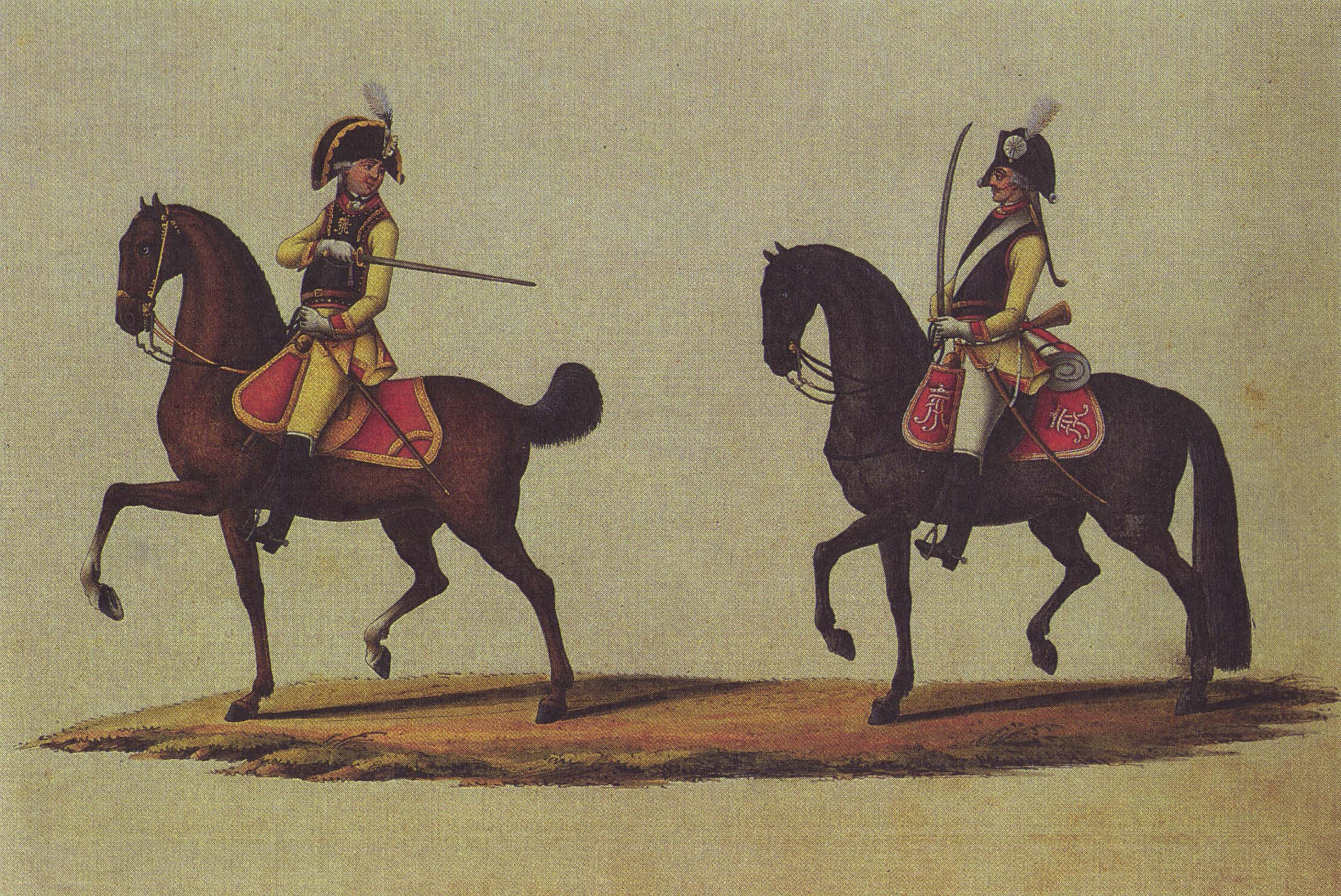 Officer and Soldier from saxon cuirassier regiment "Kürfürst" (1791)